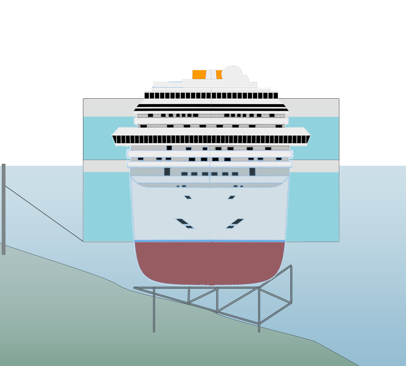 Rightening of Costa Concordia - stage 3 of 4. A process called parbuckling used pulling cables and metal boxes with water and welded to the ship's sides to roll it upright. The procedure took 19 hours to complete at Giglio island. Once the ship had rotated to 25 degrees, no further pulling was required as it continued to rotate under its own weight.